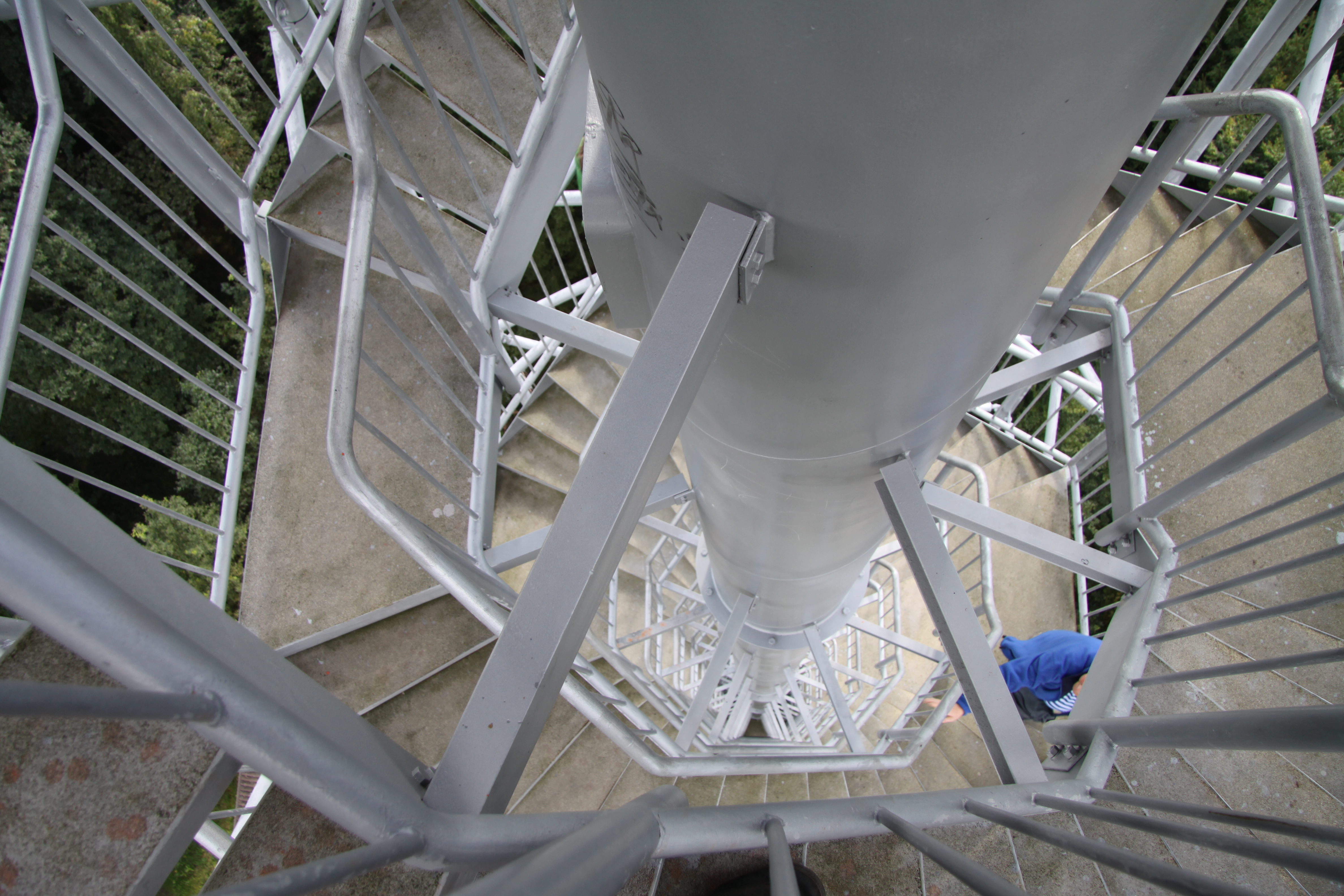 Javorník tower near Písek town, South Bohemia, Czech Republic